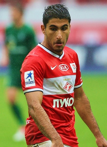 Araz Özbiliz 2013